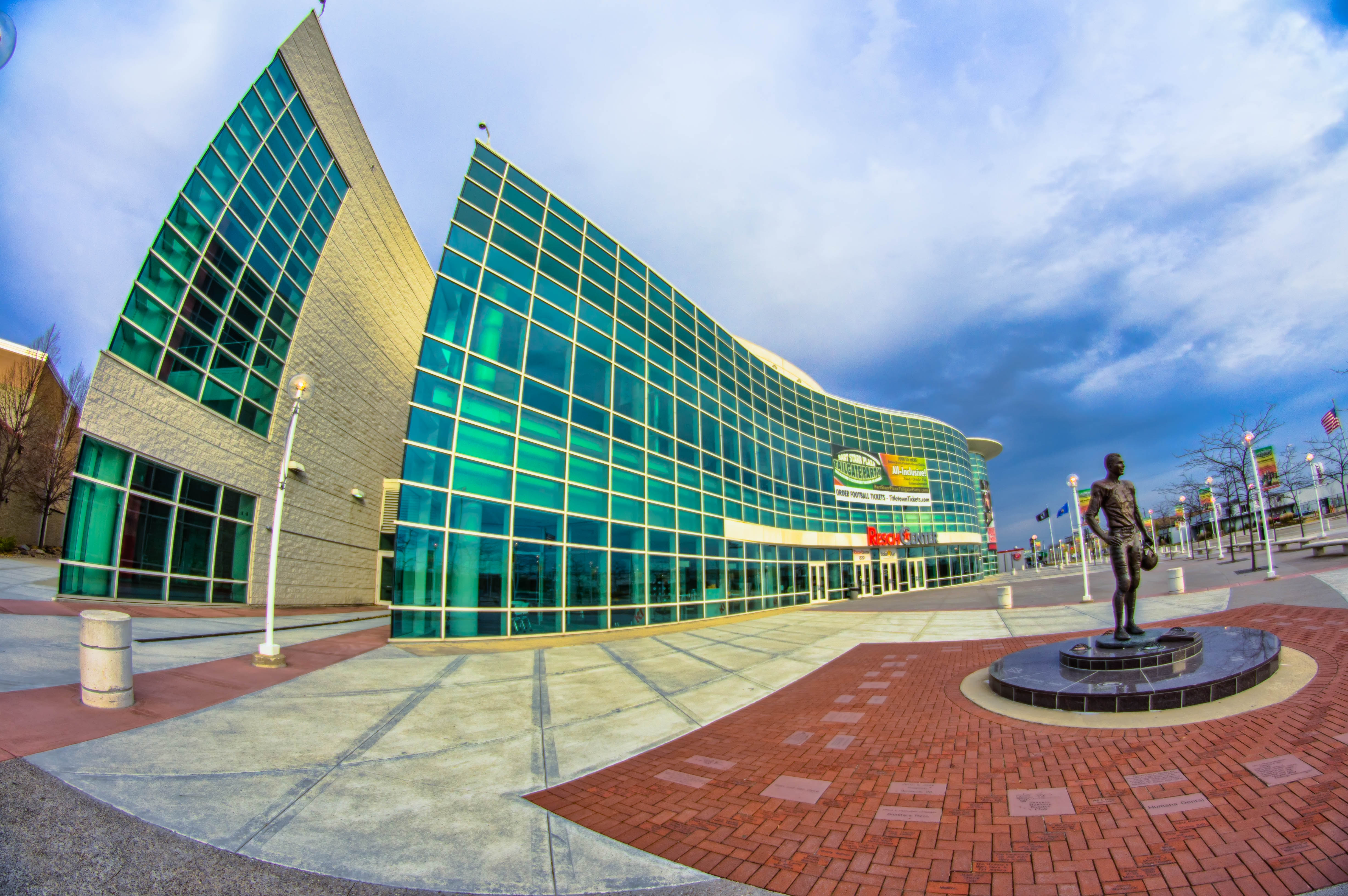 Arena in close proximity to Lambeau Field.